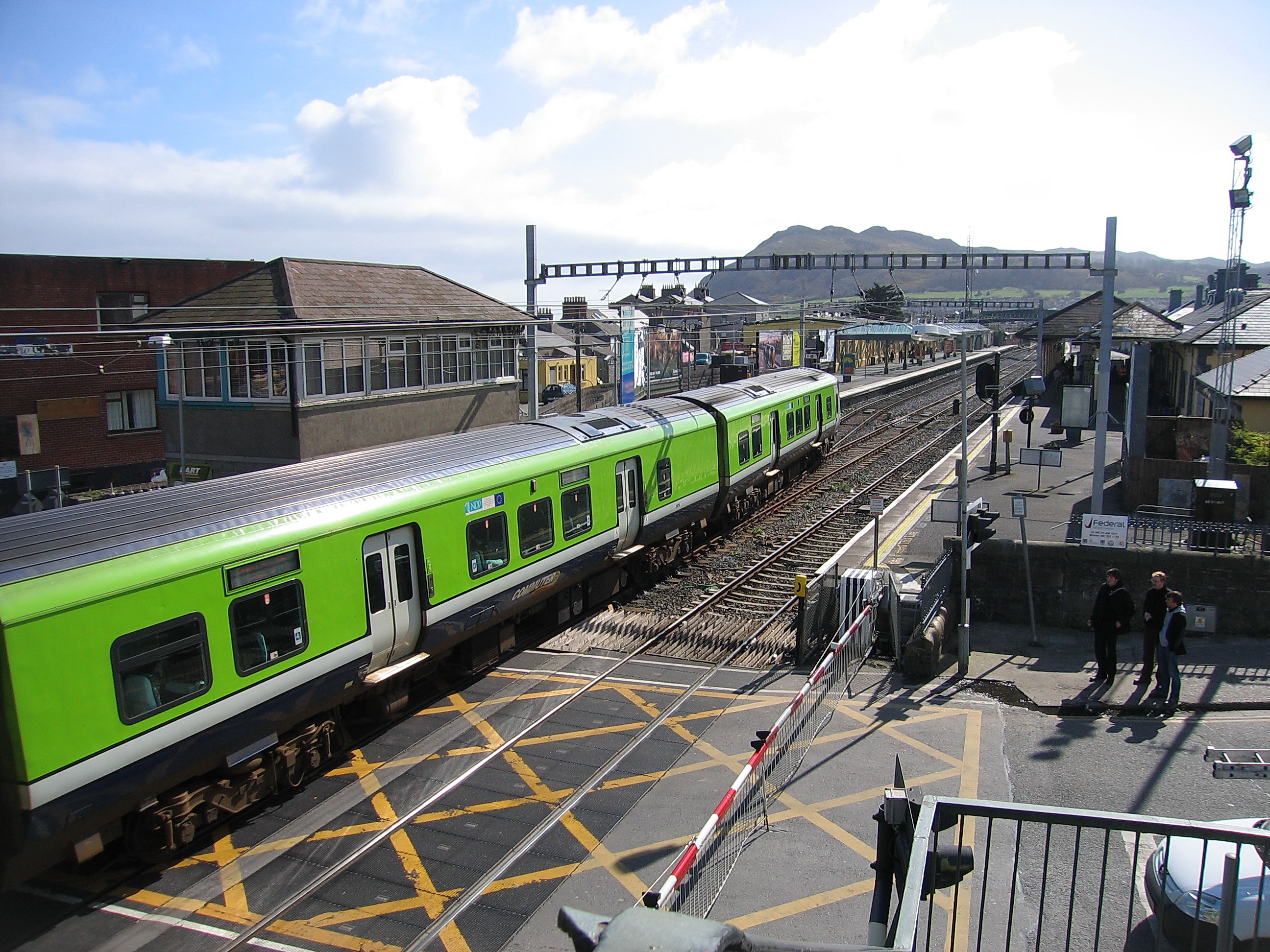 Bray Railway Station